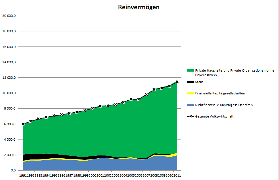 Net worth of sectors of German economy. Data from Statistisches Bundesamt: Own computations and graph.